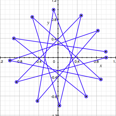 e^(i*log2(3/2)*2*pi*n) The Pythagorean comma, 23.46 cents, shown as the gap (on the right side) which causes a 12-pointed star to fail to close, which star represents the Pythagorean scale; each line representing a just perfect fifth. That gap has a central angle of 7.038 degrees, which is 23.46% of 30 degrees.